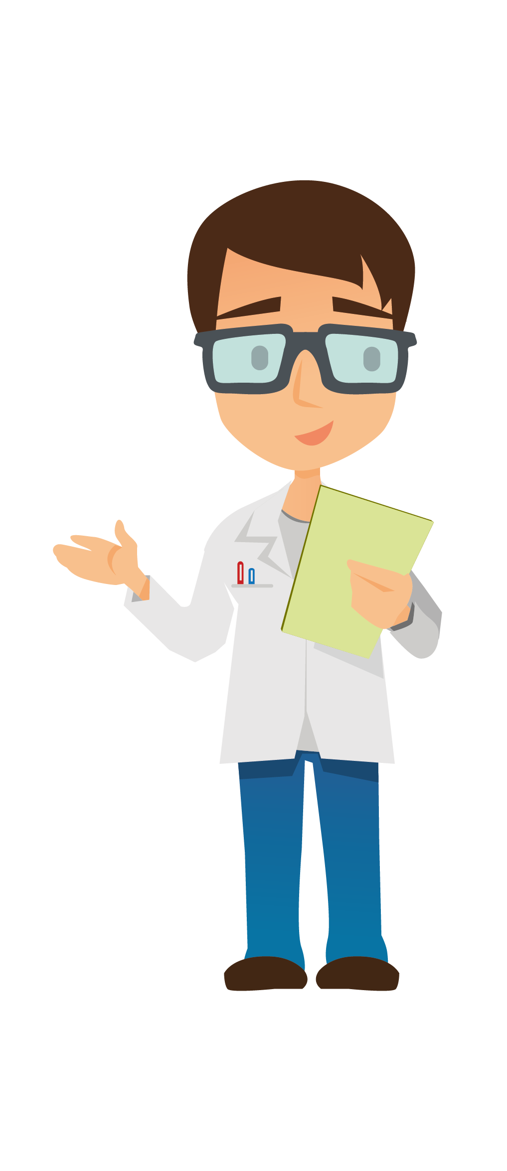 Another icon of medical doctor